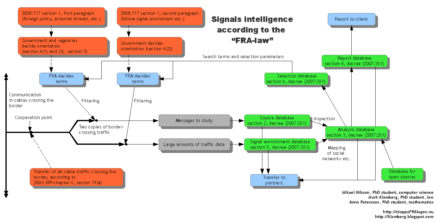 Description how the Swedish Defence Radio Authority collects and processes communication